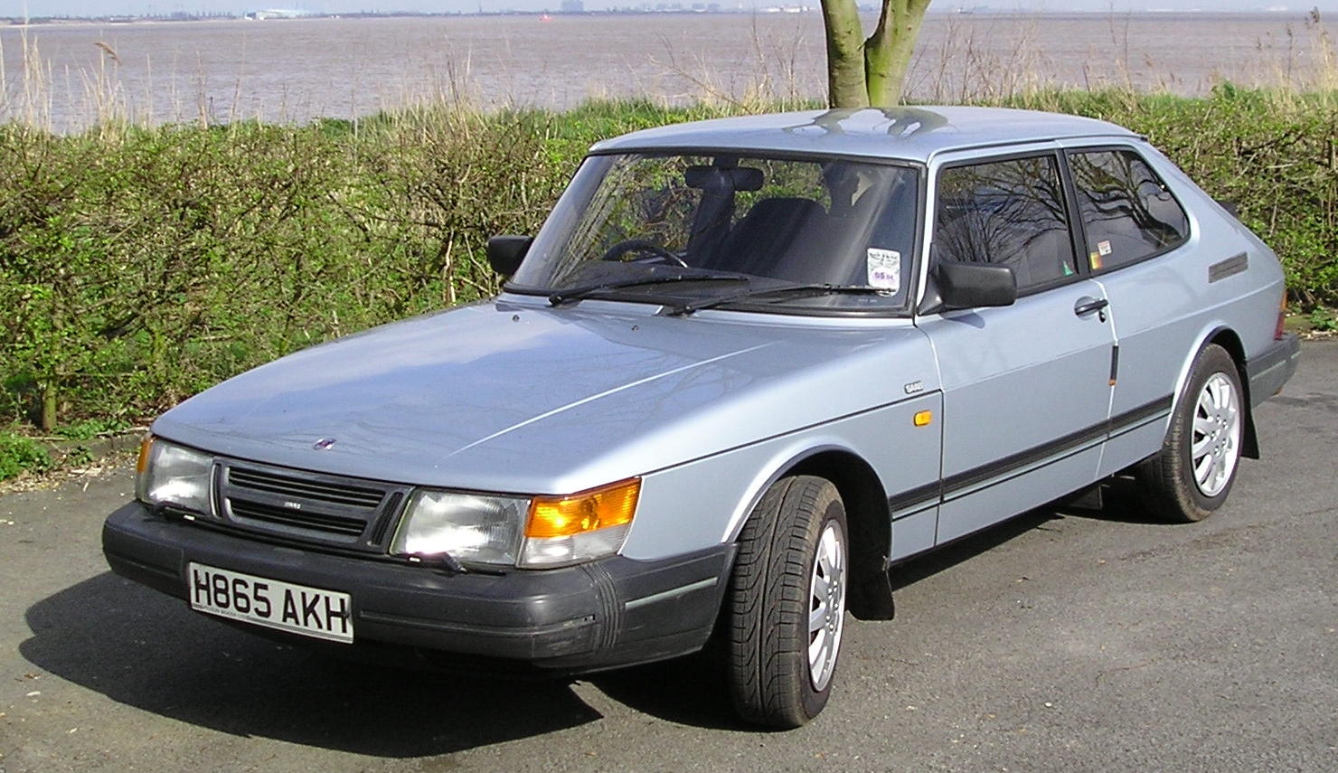 Crop of File:Saab 900 GLE (2).jpg